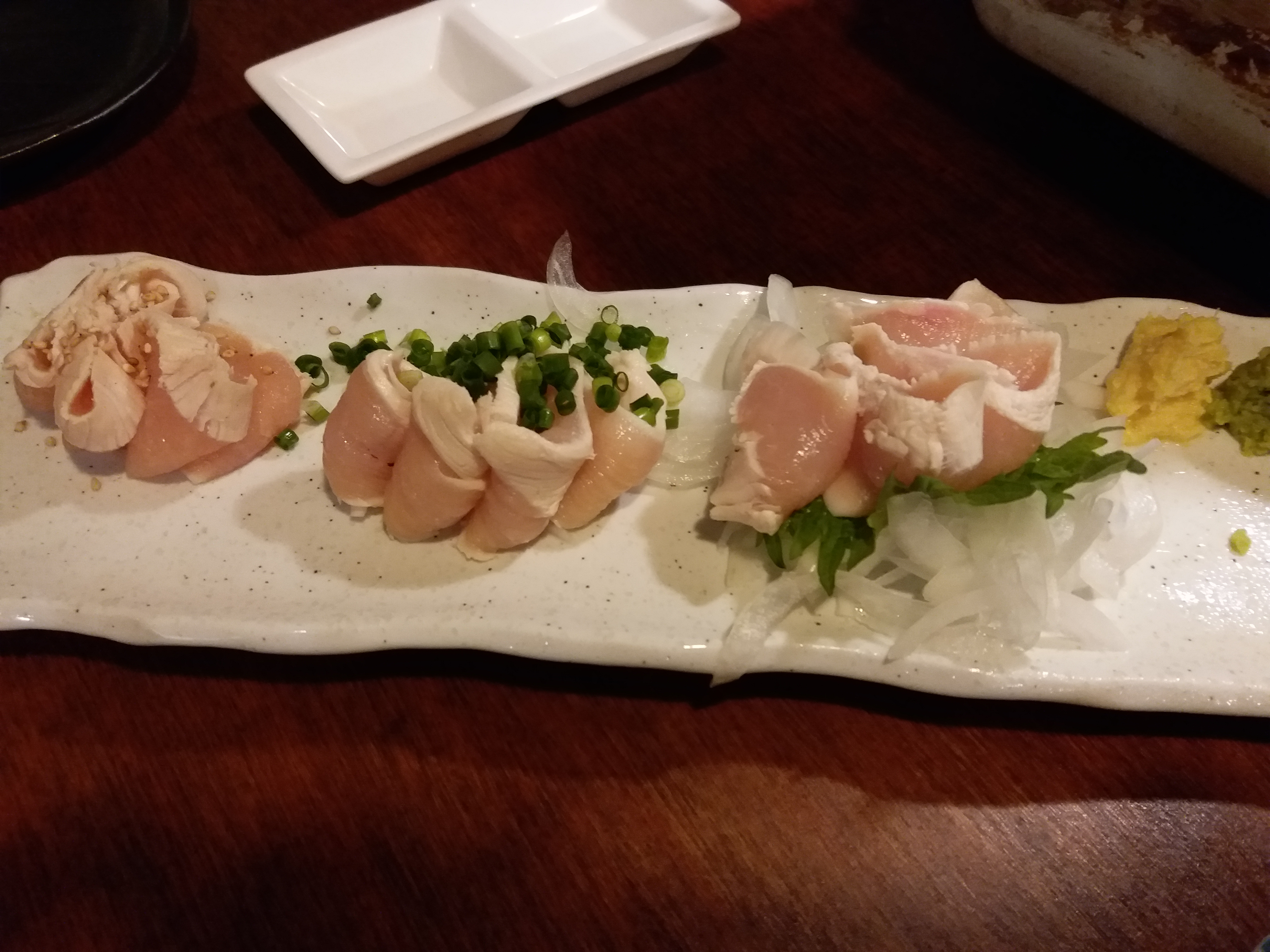 This photo has been taken in the country: Japan